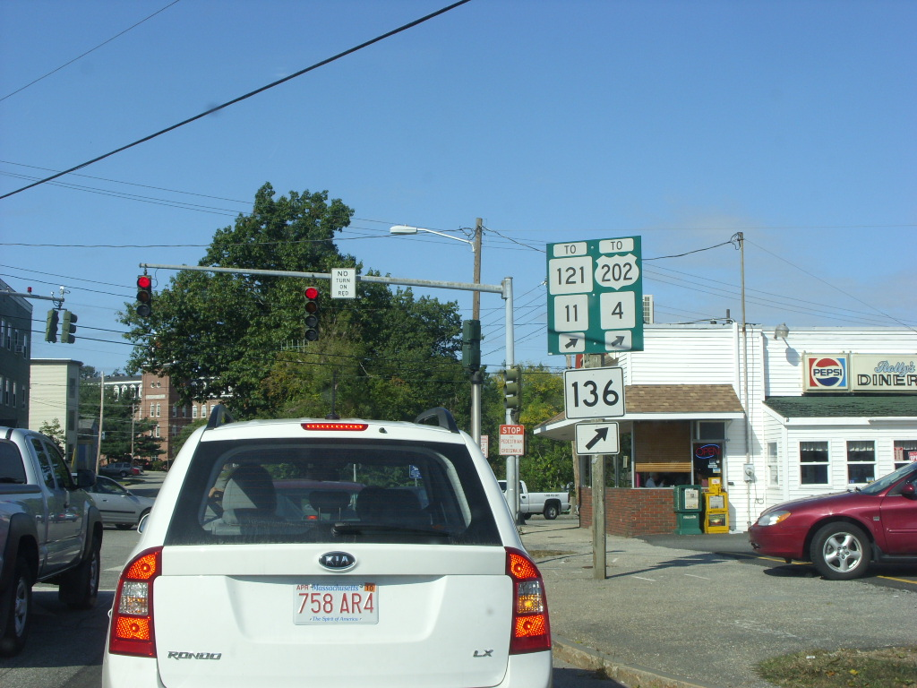 Signage on Maine State Route 136 for Routes 11, 121, 4 and 202.